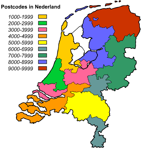 Dutch postal codes